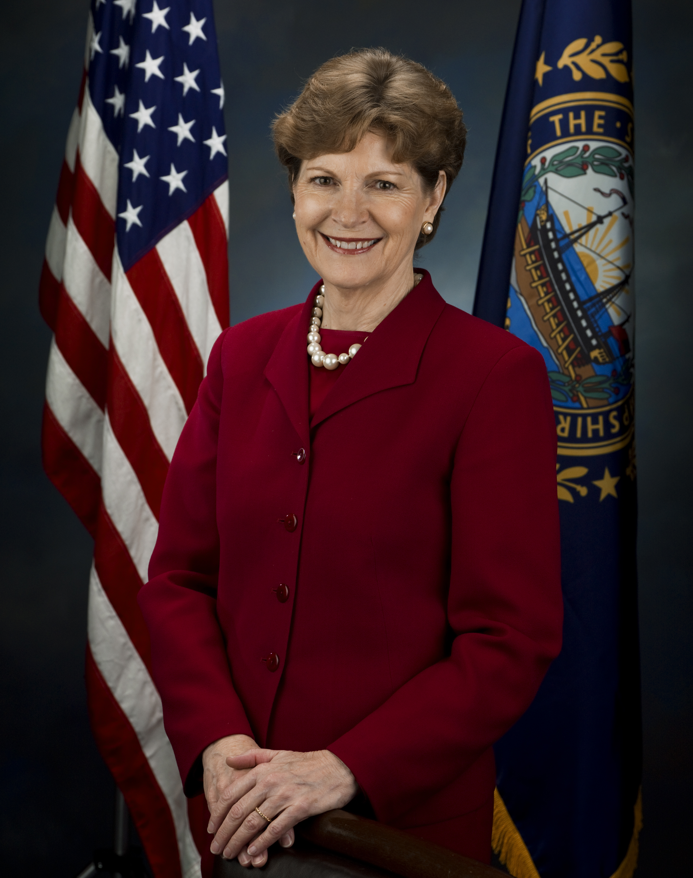 Jeanne Shaheen, member of the United States Senate from New Hampshire.